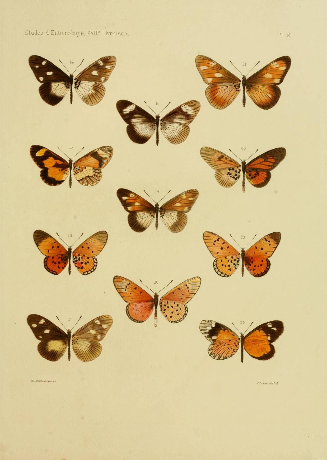 Butterflies from tropical Africa. 14: Johnston's Acraea, typical form, from Usambara Mountains (Tanzania), male15: Yellow-banded Acraea from Usambara Mountains (Tanzania), female19: Johnston's Acraea, semifulvescens form, from Usambara Mountains (Tanzania), male17: Lycoa Acraea from Mount Kilimanjaro (Tanzania), male21: Johnston's Acraea, fulvescens form, from Usambara Mountains (Tanzania), male